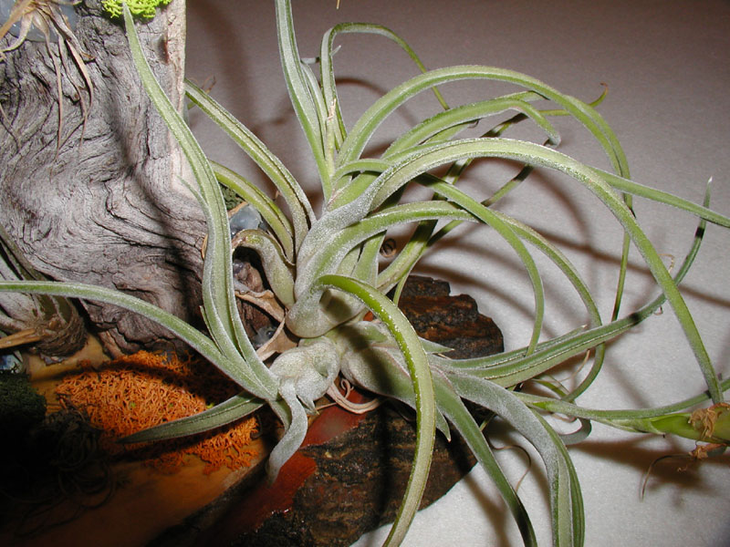 Single Tillandsia plant. Photographed by Adrian Pingstone in January 2003 and placed in the public domain.